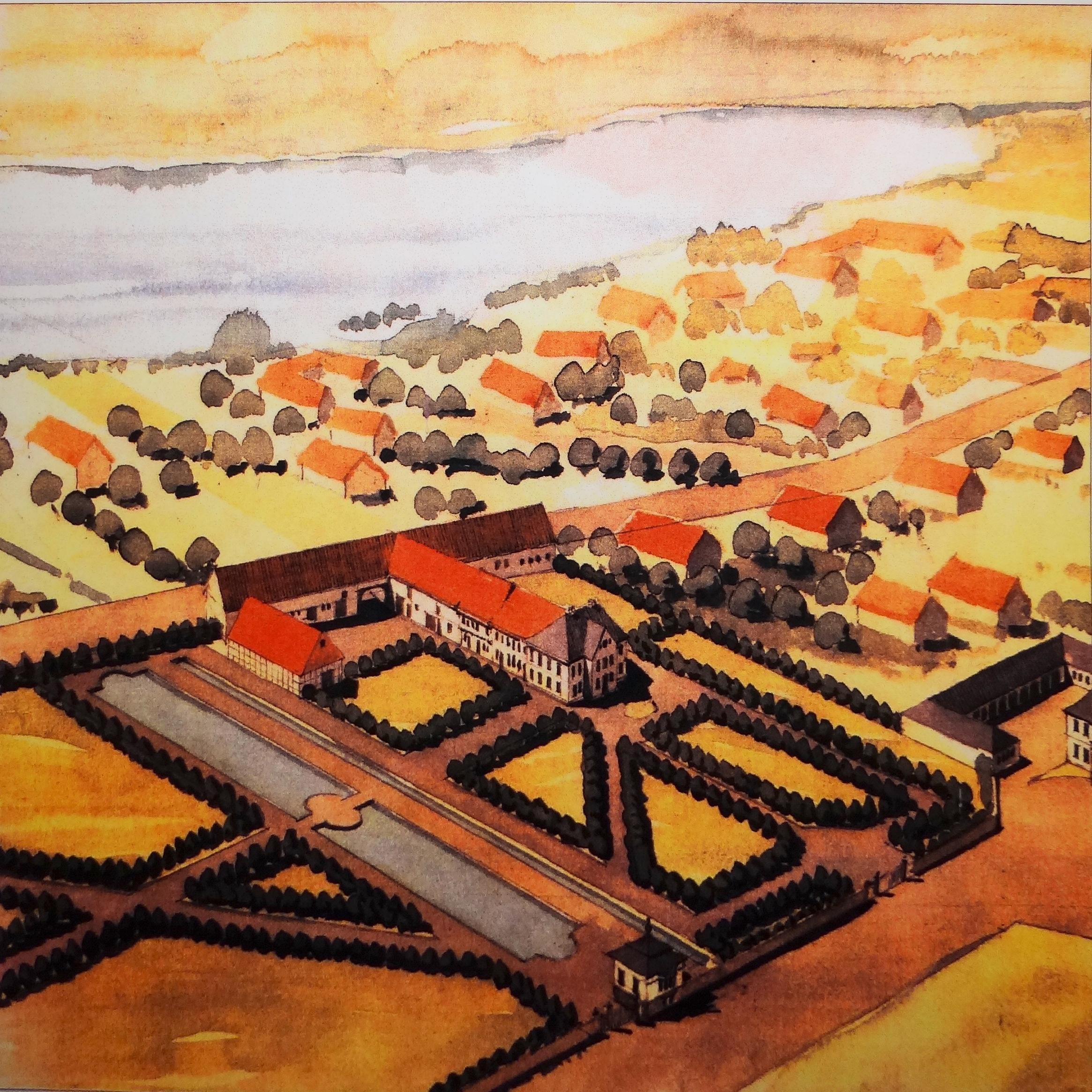 Baroc garden in Braunschweig-Stöckheim, historical view.